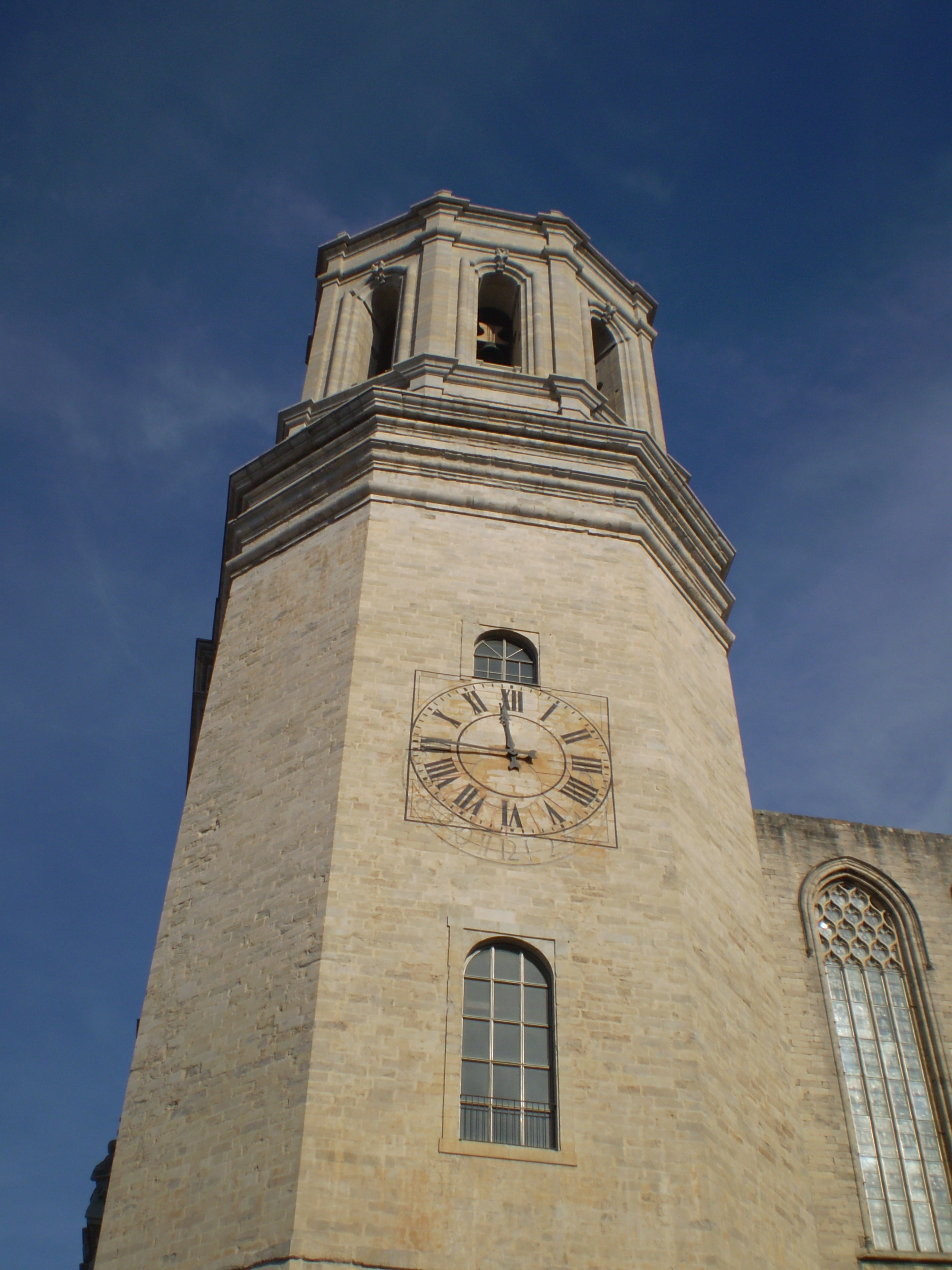 It's a part of the Cathedral of Girona.